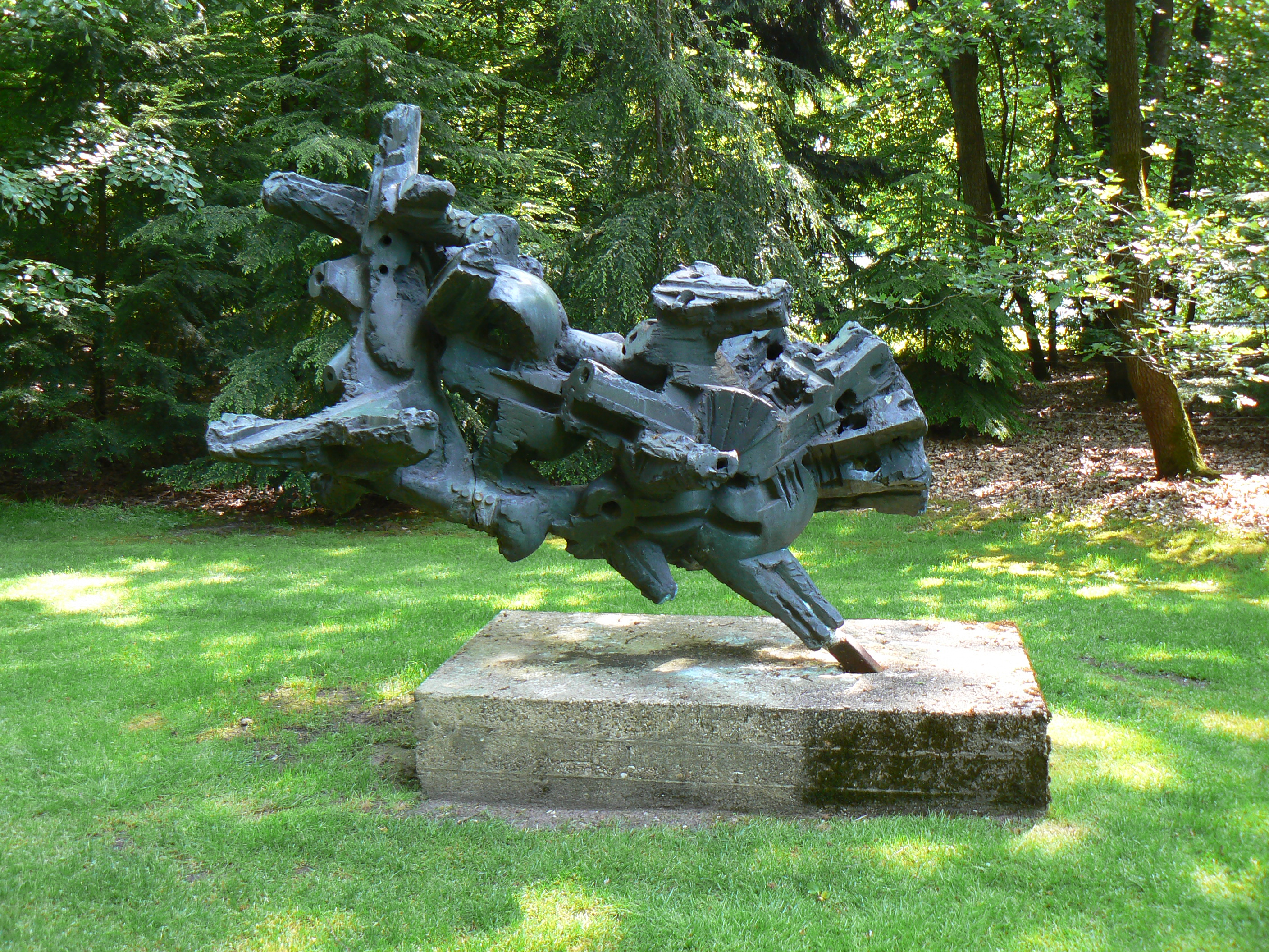 sculpture Picadores (1965) by Umberto Mastroianni in sculpturepark KMM/The Netherlands